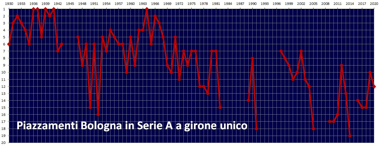 Placements of Bologna F.C. 1909 from 1929-30 season (single round Serie A)